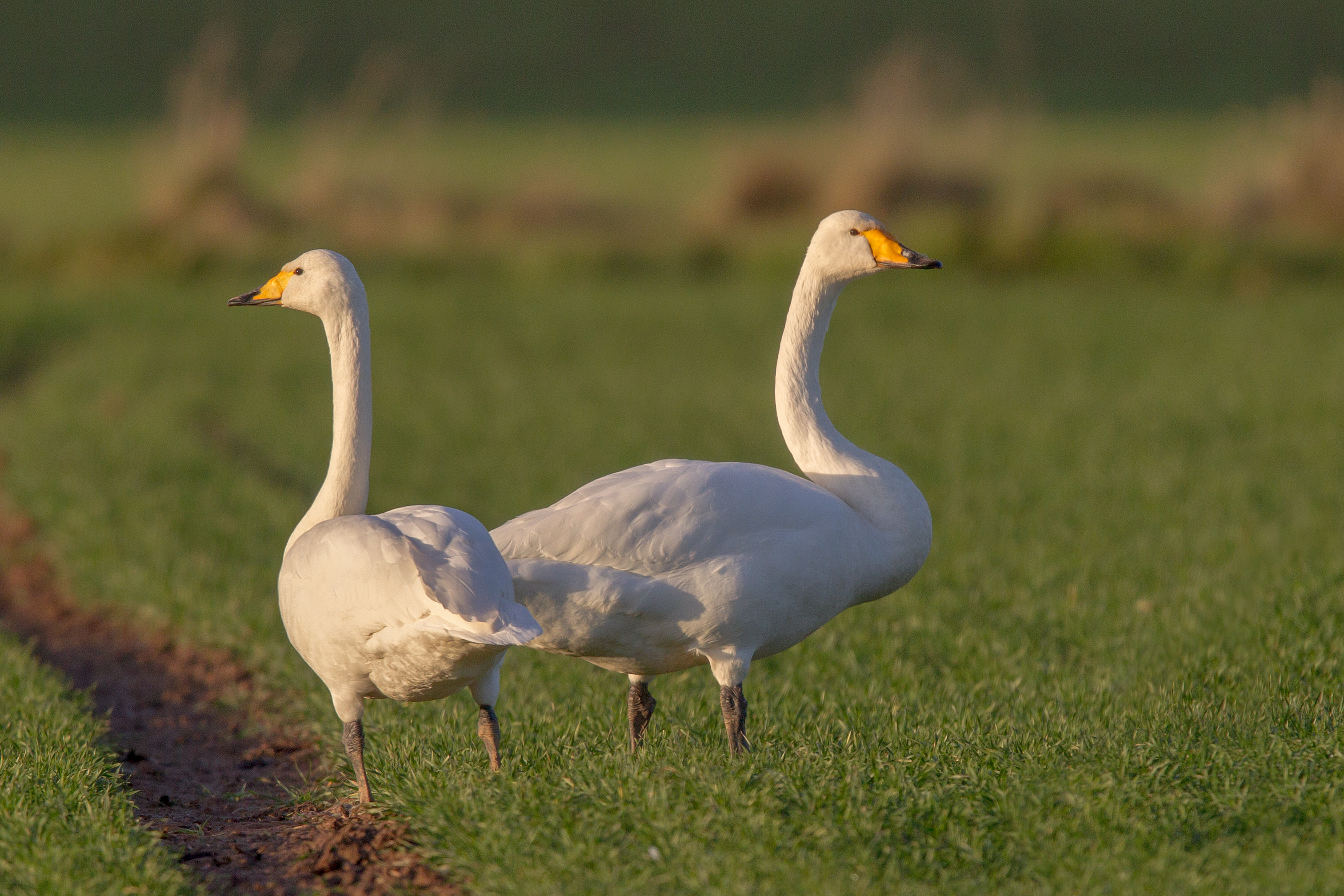 Whooper Swans, female (left) and male (right)